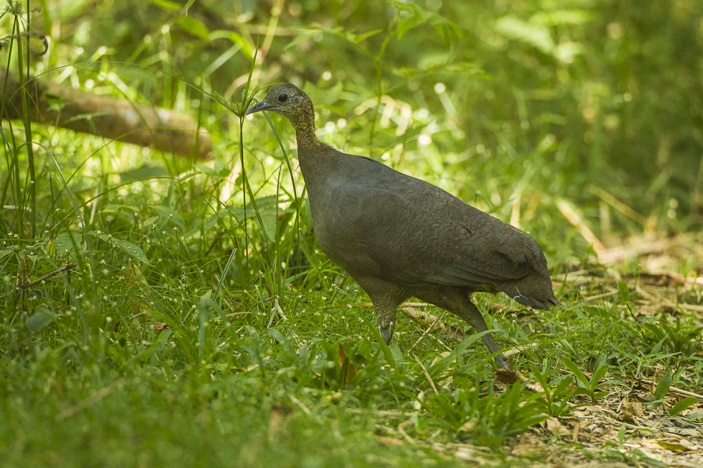 A Solitary Tinamou at Intervales State Park, São Paulo, Brazil.